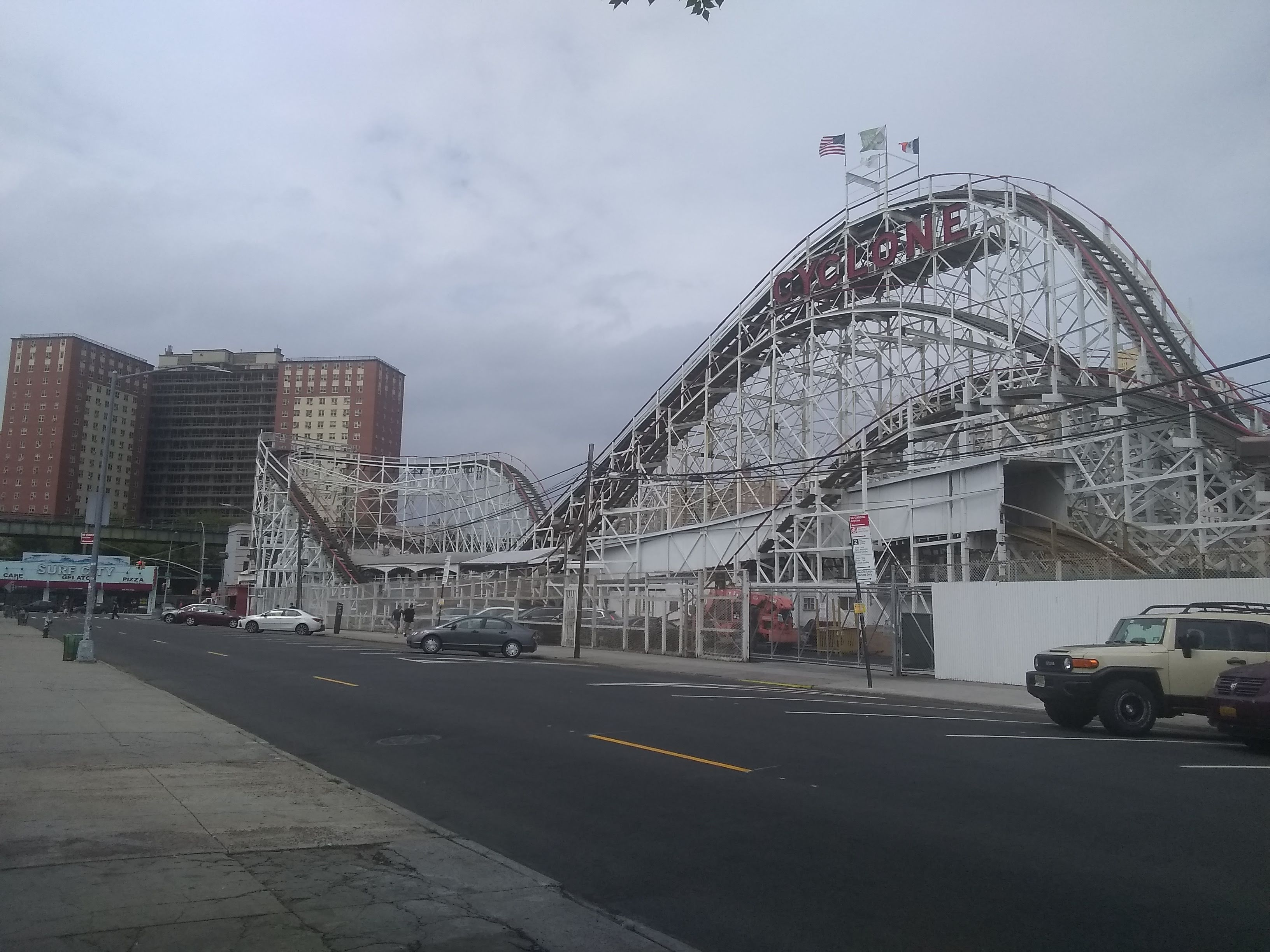 Coney Island in Brooklyn, New York, seen in July 2019. The Cyclone and West 10th Street